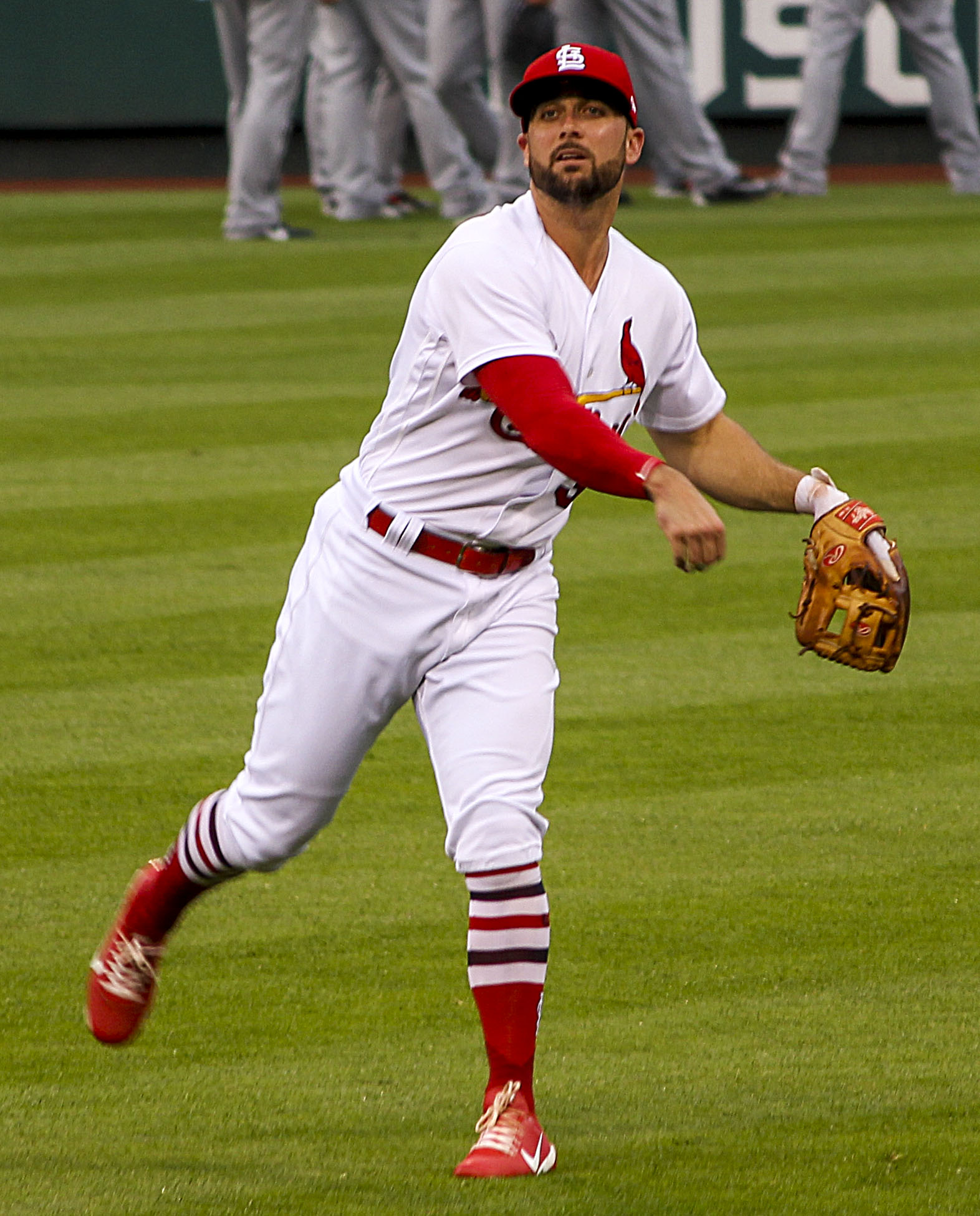 Greg Garcia of the St.louis cardinals